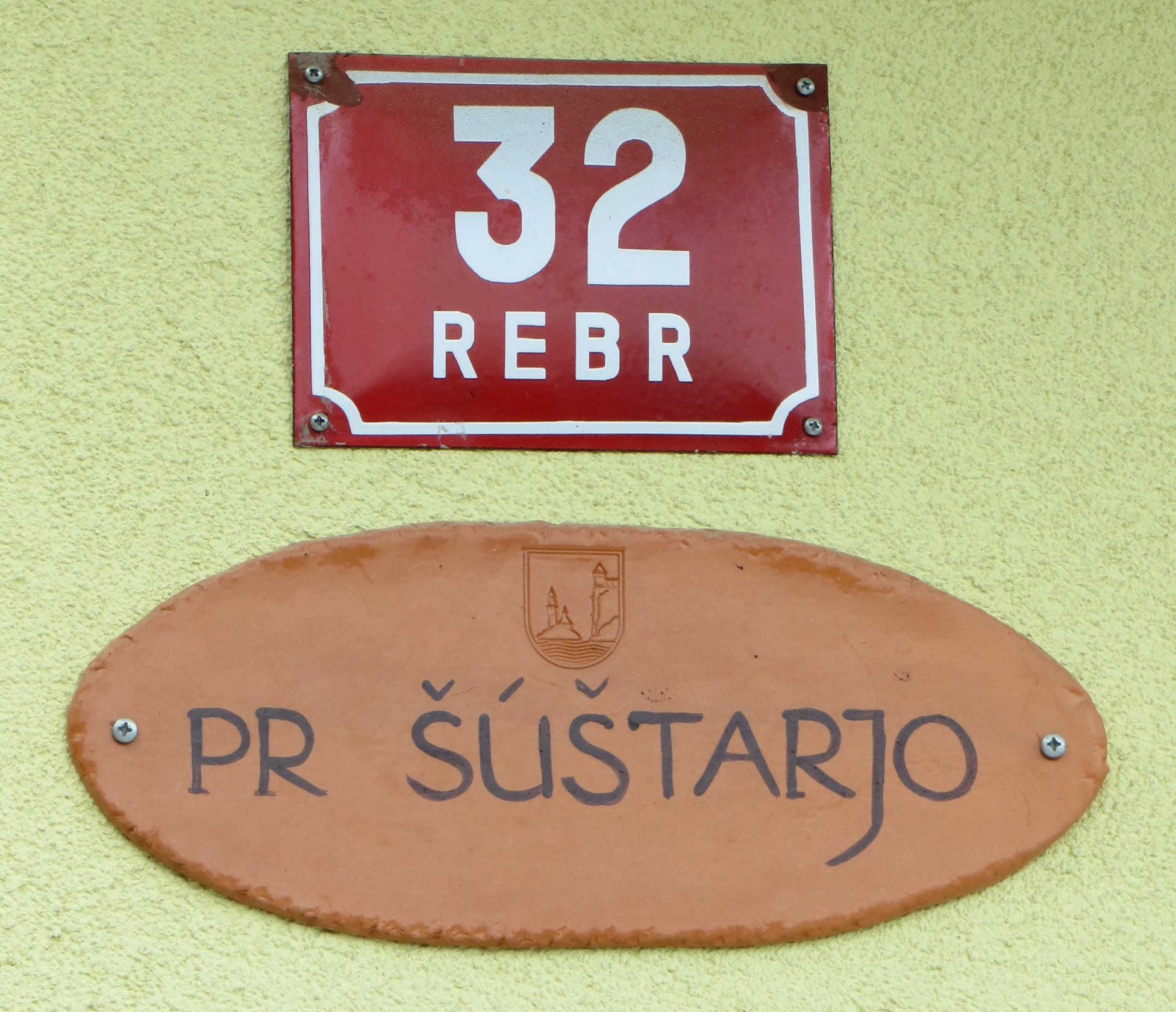 A street address and oeconym (in dialect) on a house in Zasip, Municipality of Bled, Slovenia